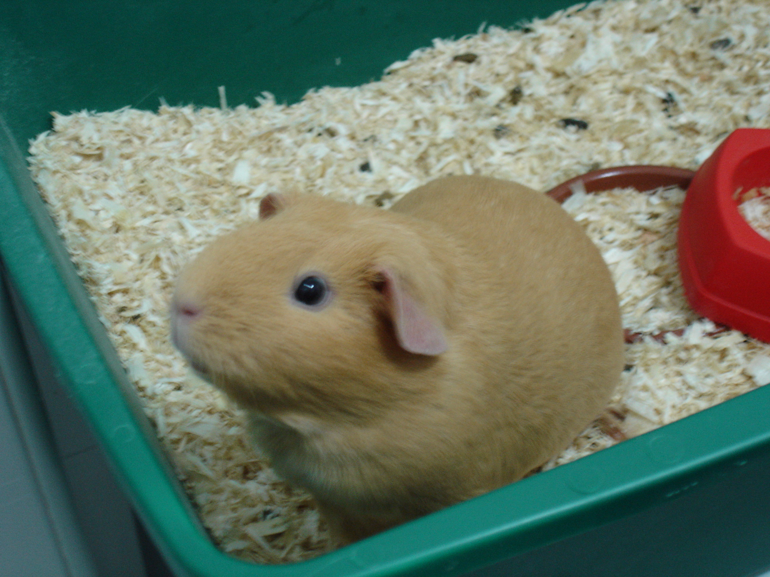 A Guinea pig (Cavia porcellus).